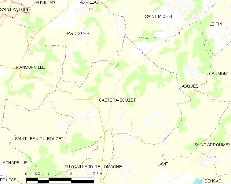 Map of French municipality Castéra-Bouzet